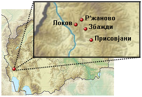 Map of the region Malesia. Equirectangular projection, WGS84 datum *Standard meridian: 021° 45' E *Central parallel: 41° 36' N Geographic limits of the map: *Left: 020° 18' E *Right: 023° 12' E *Top: 42° 30' N *Bottom: 40° 42' N